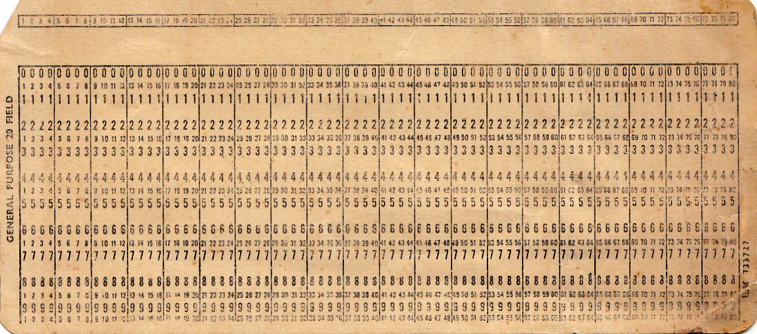 A scanned copy of a punched card given to me by a hydrologist around fifteen years ago.